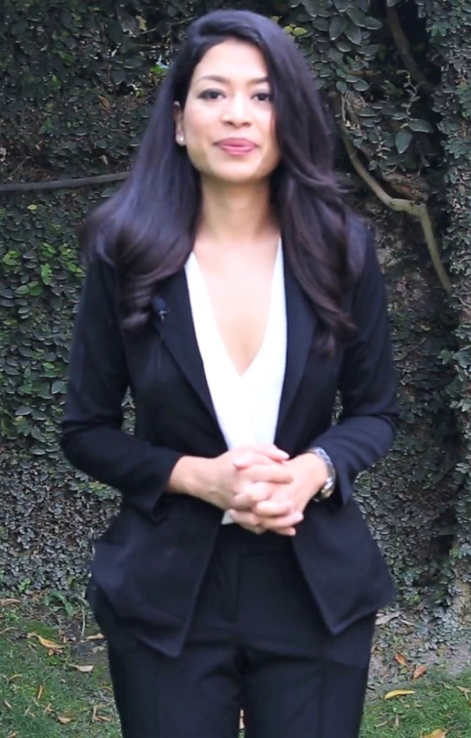 UDHR Article 13 | Miss Nepal 2013 | Ishani Shrestha (1) Everyone has the right to freedom of movement and residence within the borders of each state. (2) Everyone has the right to leave any country, including his own, and to return to his country. Celebrating the 70th Anniversary of the Universal Declaration of Human Rights.